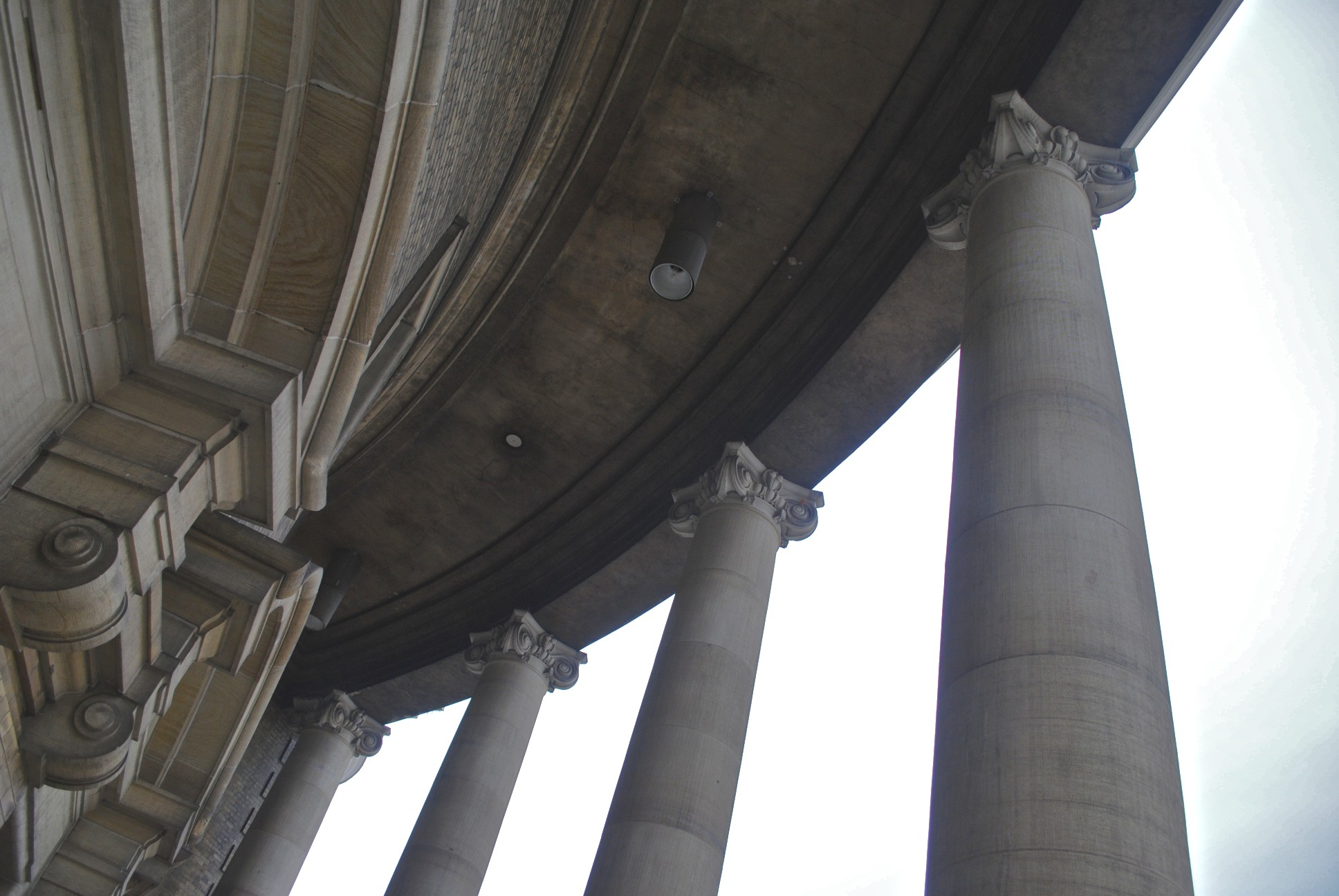 This is a perspective view of the column of Convocation Hall at UofT